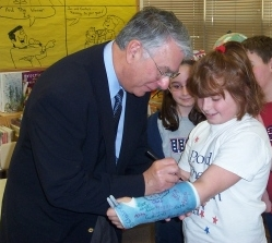 Congressman Manzullo signs a cast